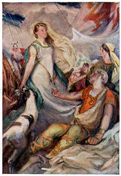 TRISTREM AND YSONDE - Illustration from Legends & Romances of Brittany by Lewis Spence, illustrated by W. Otway Cannell.